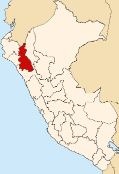 Map showing the location of the Cajamarca region in Peru